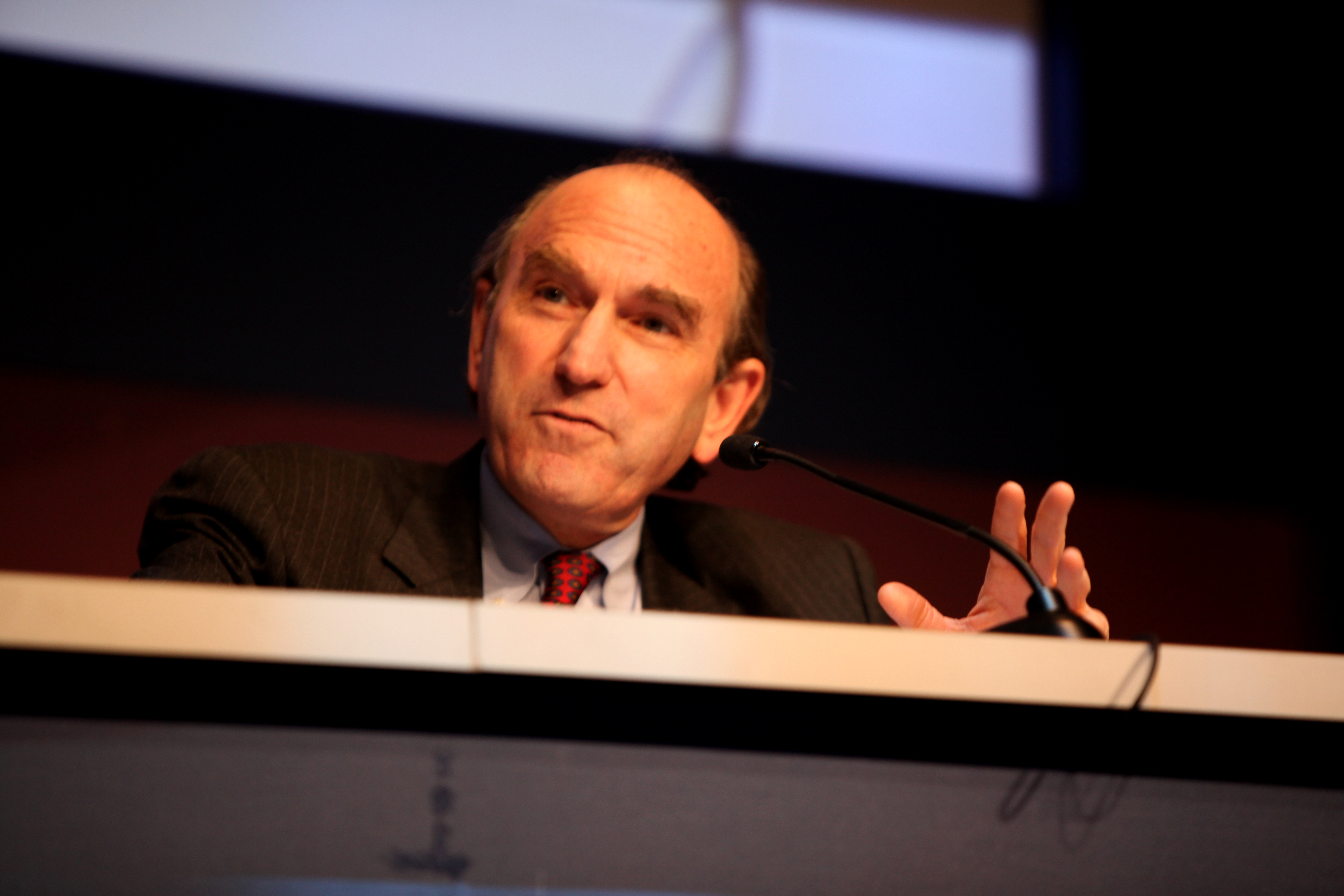 Elliott Abrams speaking at the 2012 CPAC in Washington, D.C.